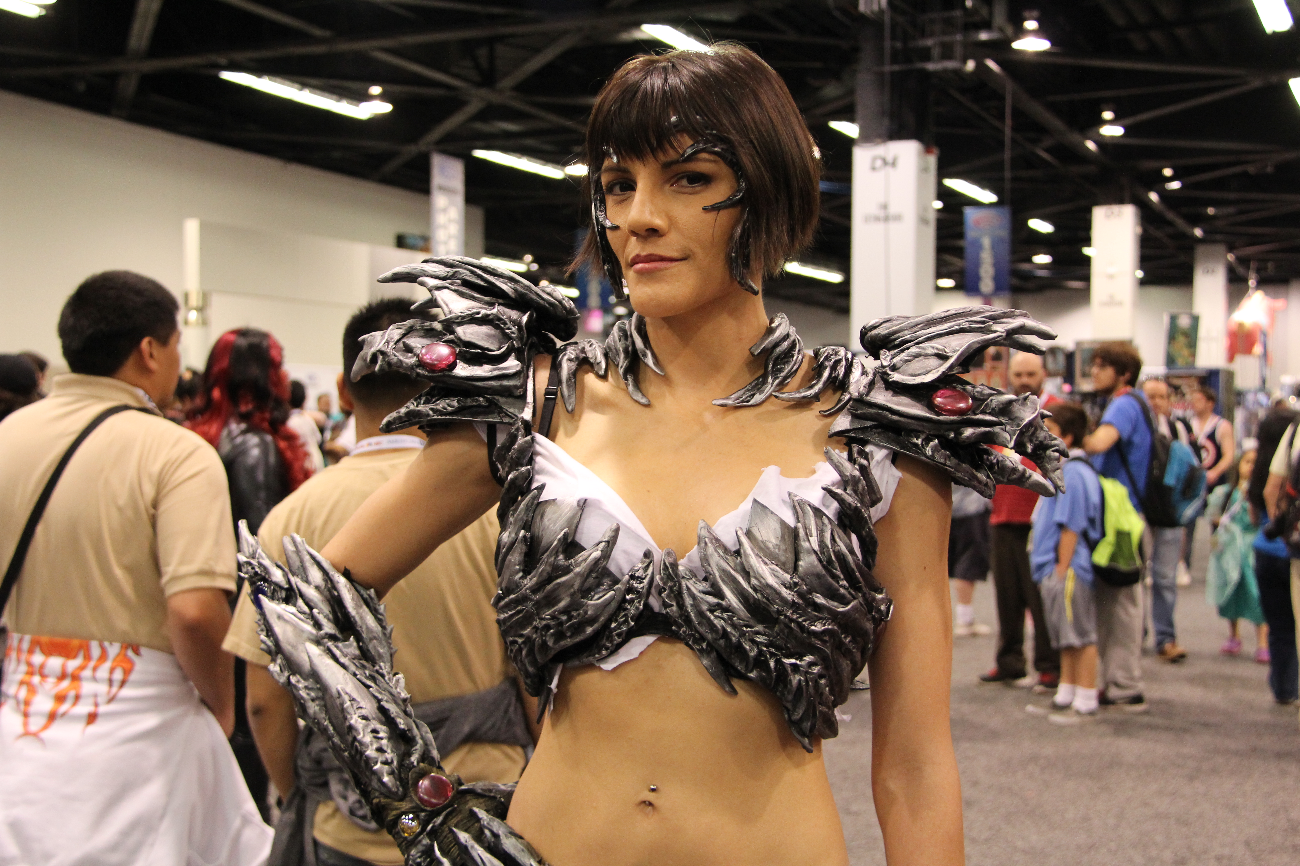 A cosplay of Witchblade